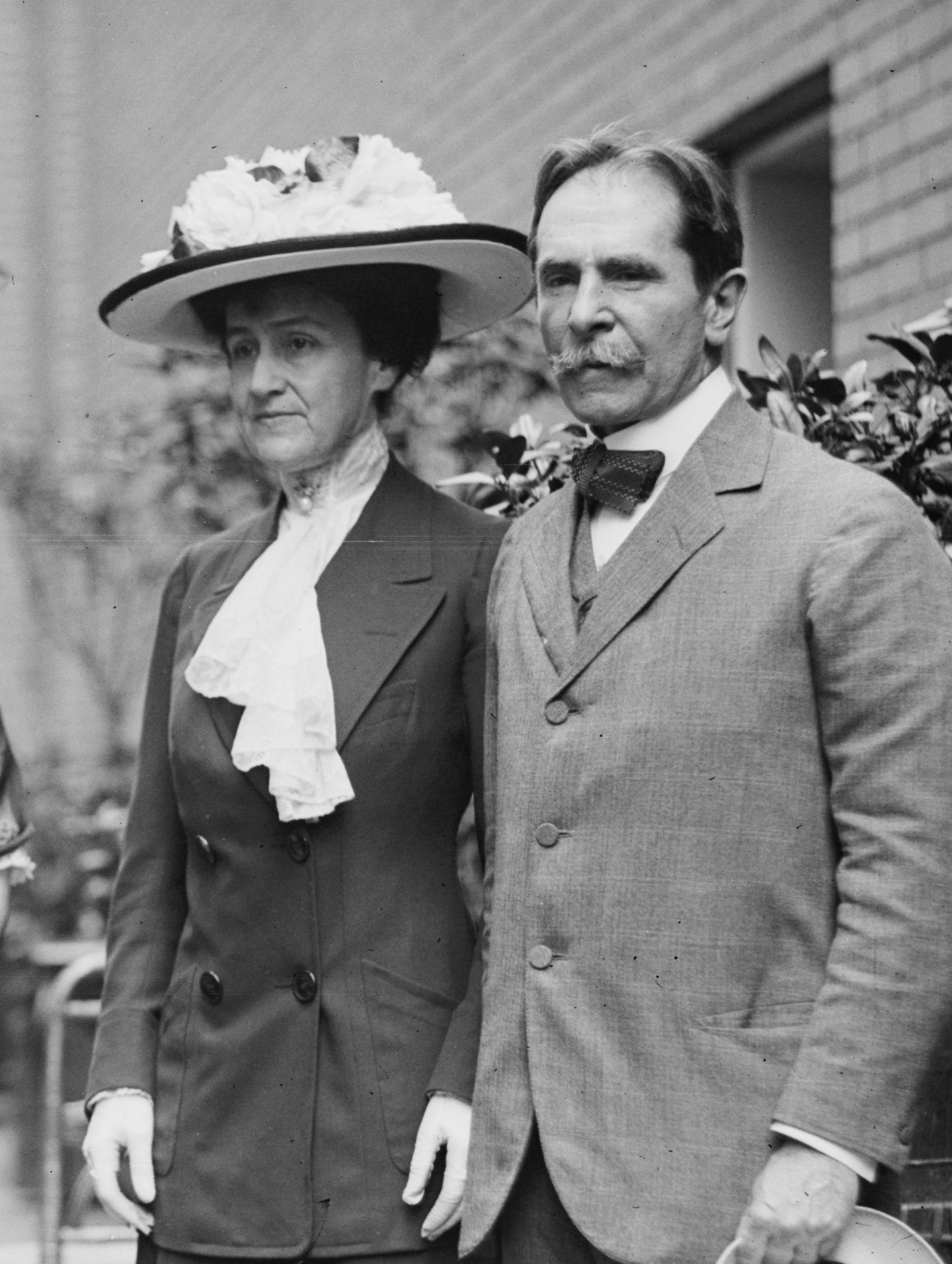 Title: Judge Wade, Mrs. Mack, Mr. & Mrs. Perry Belmont Abstract/medium: 1 negative : glass ; 5 x 7 in. or smaller.